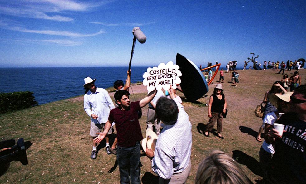 Chas Licciadello puts a sign over Malcolm Turnbull's head in Sydney on 18 November 2007.